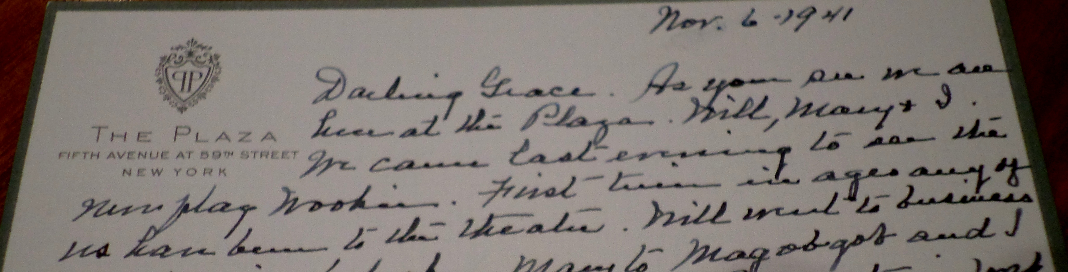 1941 letter from Mina Edison, Thomas Edison's wife, on Plaza Hotel stationery